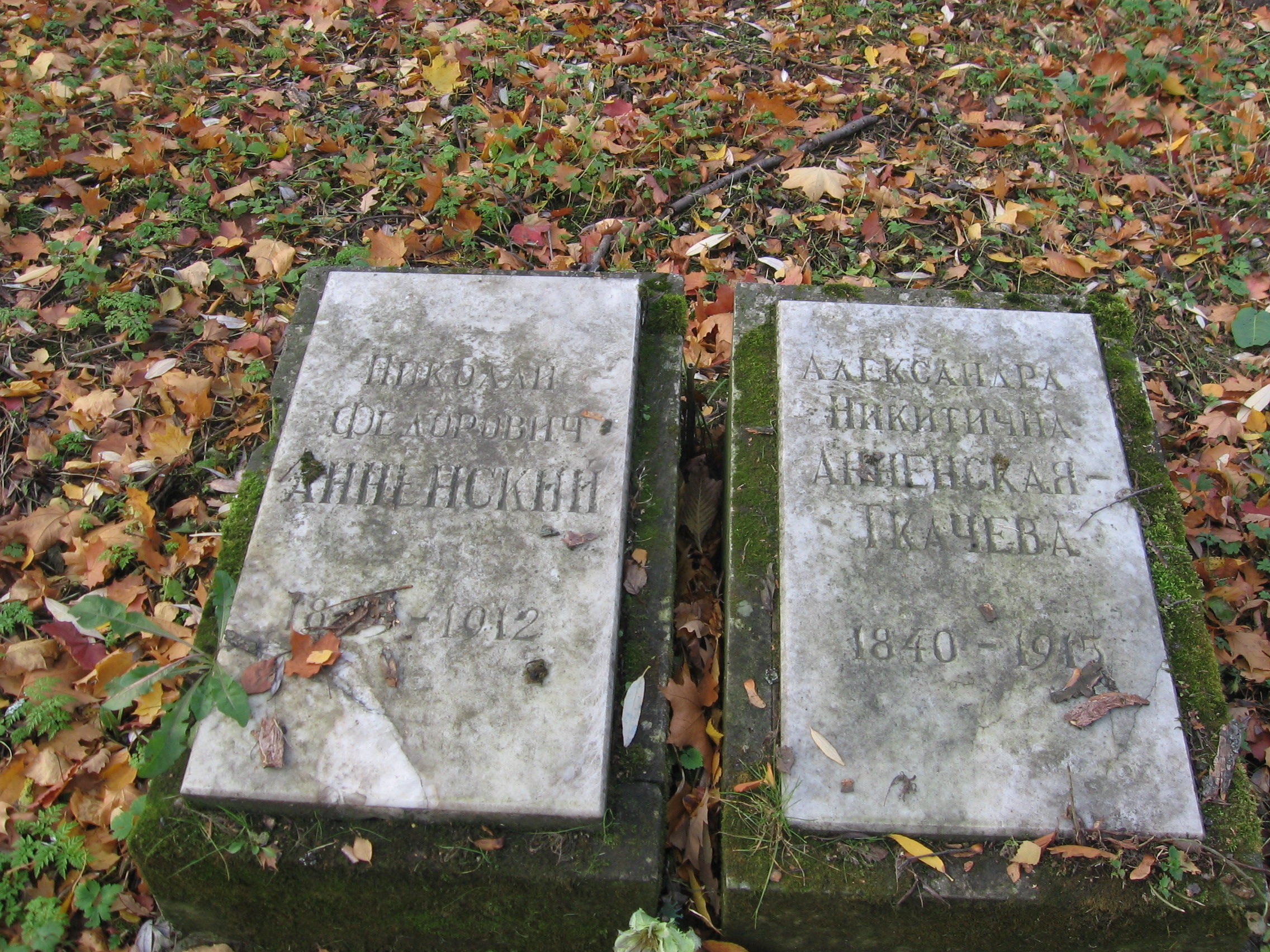 Grave of N. F. Annensky and A. N. Annensky